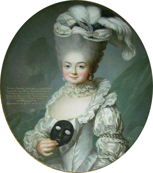 Victoire Armande de Rohan madame la princesse de Guéméné, první vychovatelka královských dětí na dvoře Ludvíka XVI. a Marie Antoinetty ve Versailles